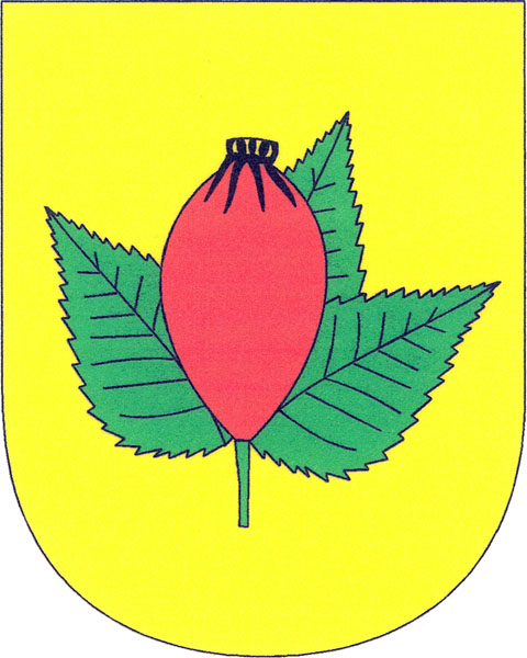 Coat of amrs of Nesuchyně , District Rakovník, Czech Republic